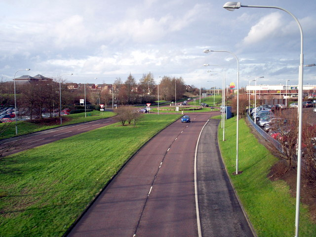 Central Way, Craigavon Taken from the footbridge looking towards the roundabout at the entrance to Rushmere Centre.